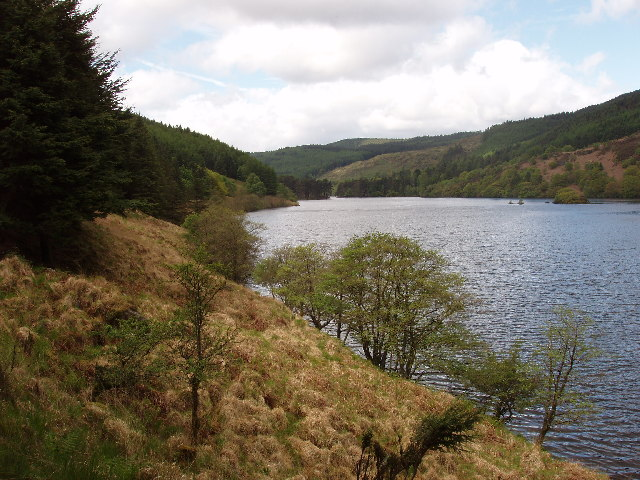 Site of Battle of Glen Trool, 1307. In 1307 Robert the Bruce with a few infantry let 1500 English soldiers with cavalry chase him up this south side of Glen Trool. At this point he had laid an ambush, the rest of his men rolled stones down this hillside to pitch men and horses into the loch, and followed up by attack with archers, so defeating the English.